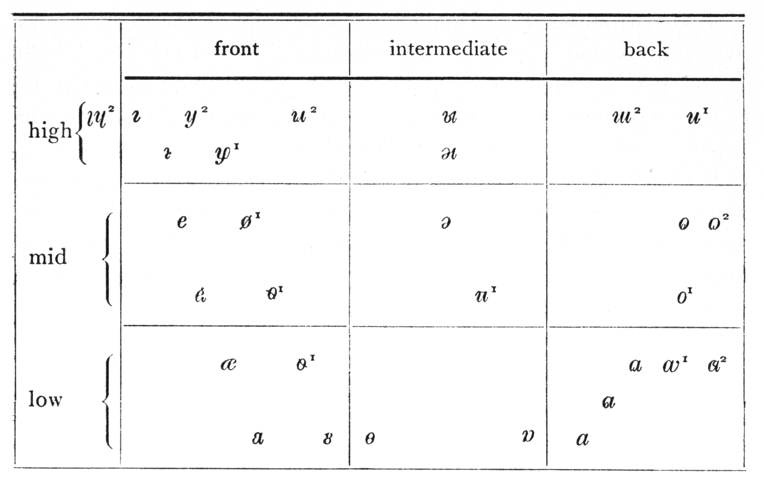 Vowel chart of the Landsmålsalfabetet from 1928